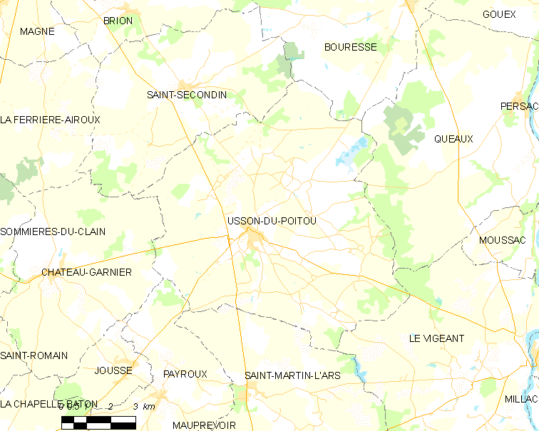 Map of French municipality Usson-du-Poitou